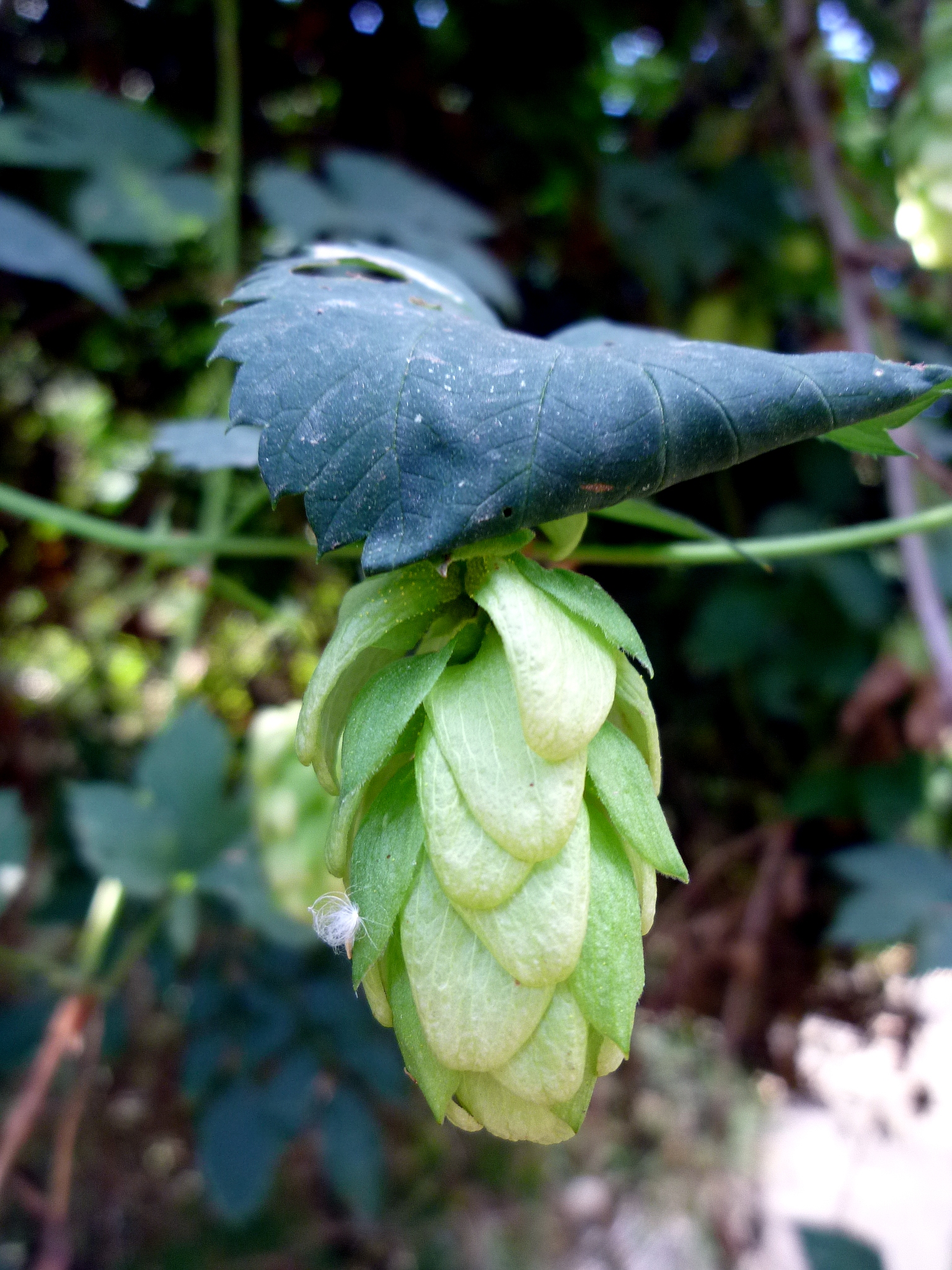 Humulus lupulus. In Torà (Segarra-Catalunya). To 435 m. altitude